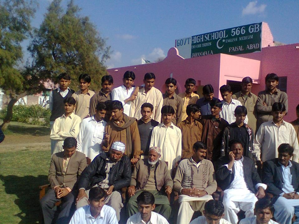 Matric Graduation 2013/14